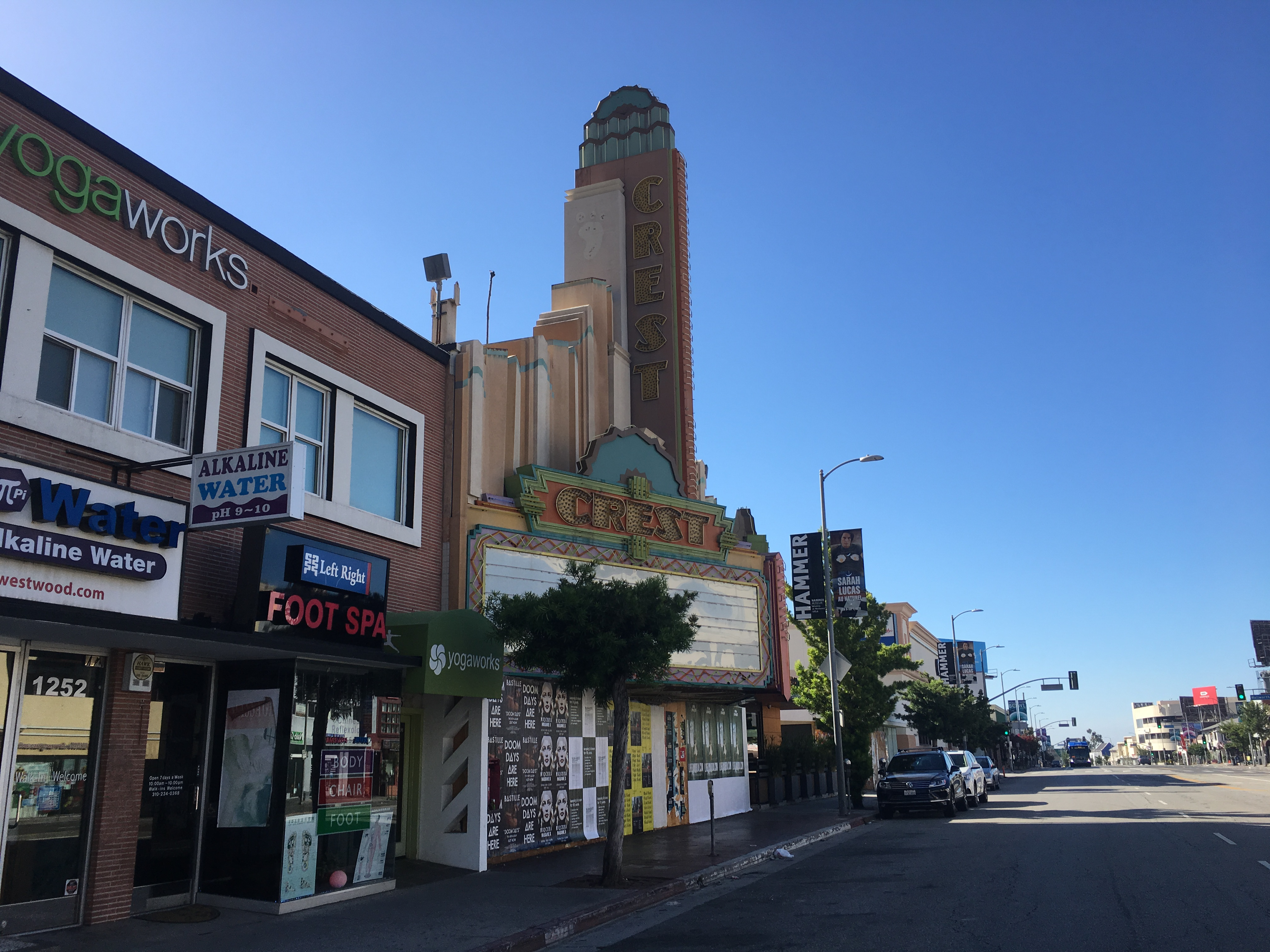 Majestic Crest Theatre, June 2019